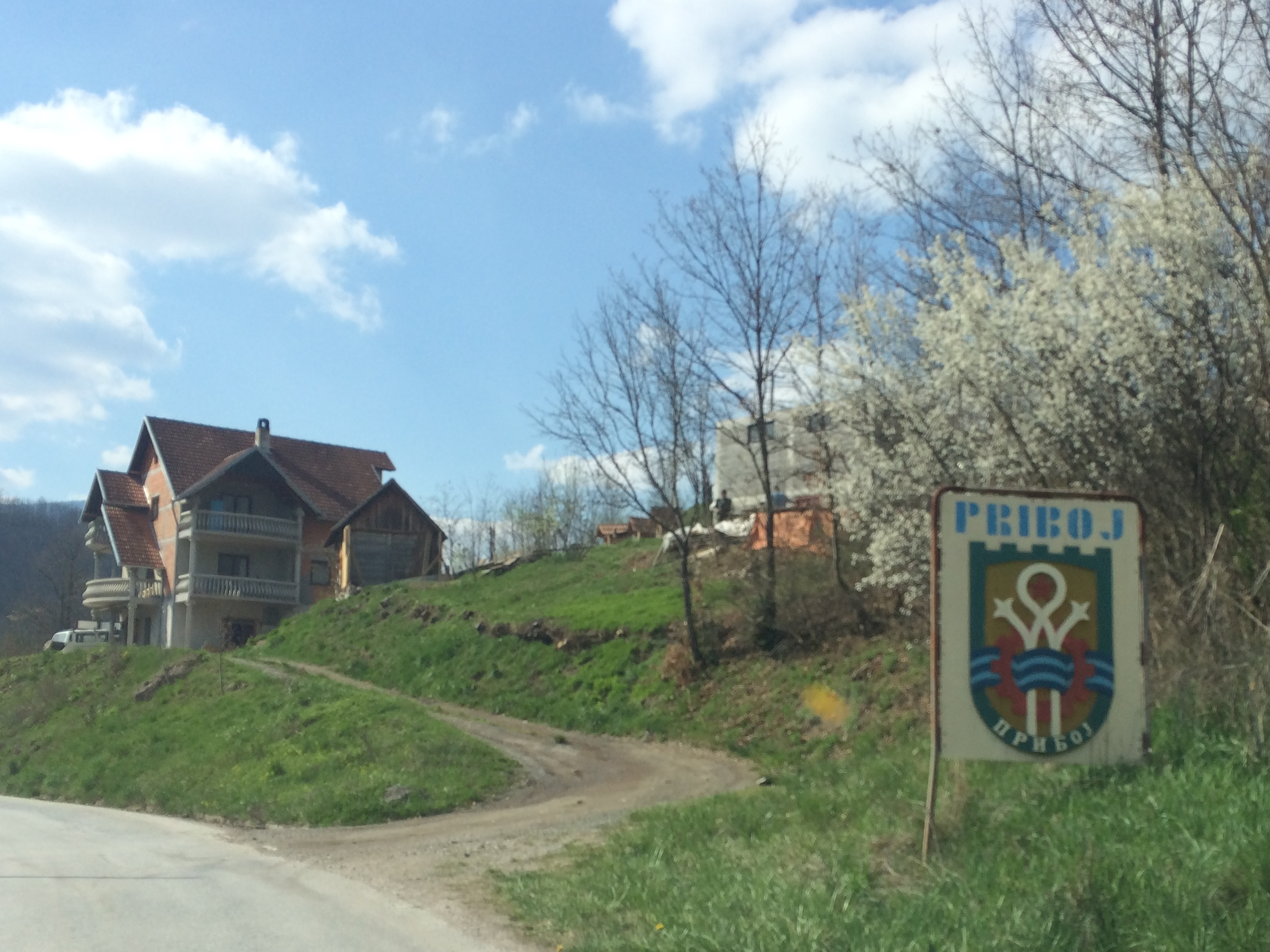 Image from the city of Priboj, southwestern Serbia